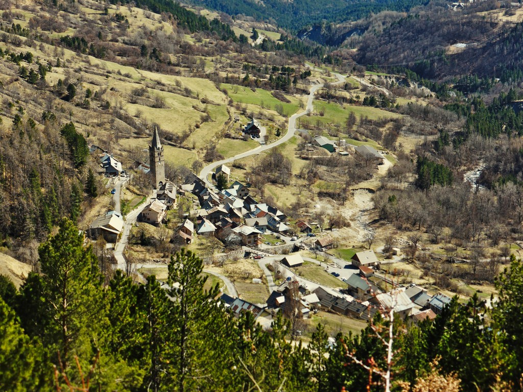 Village of Réallon